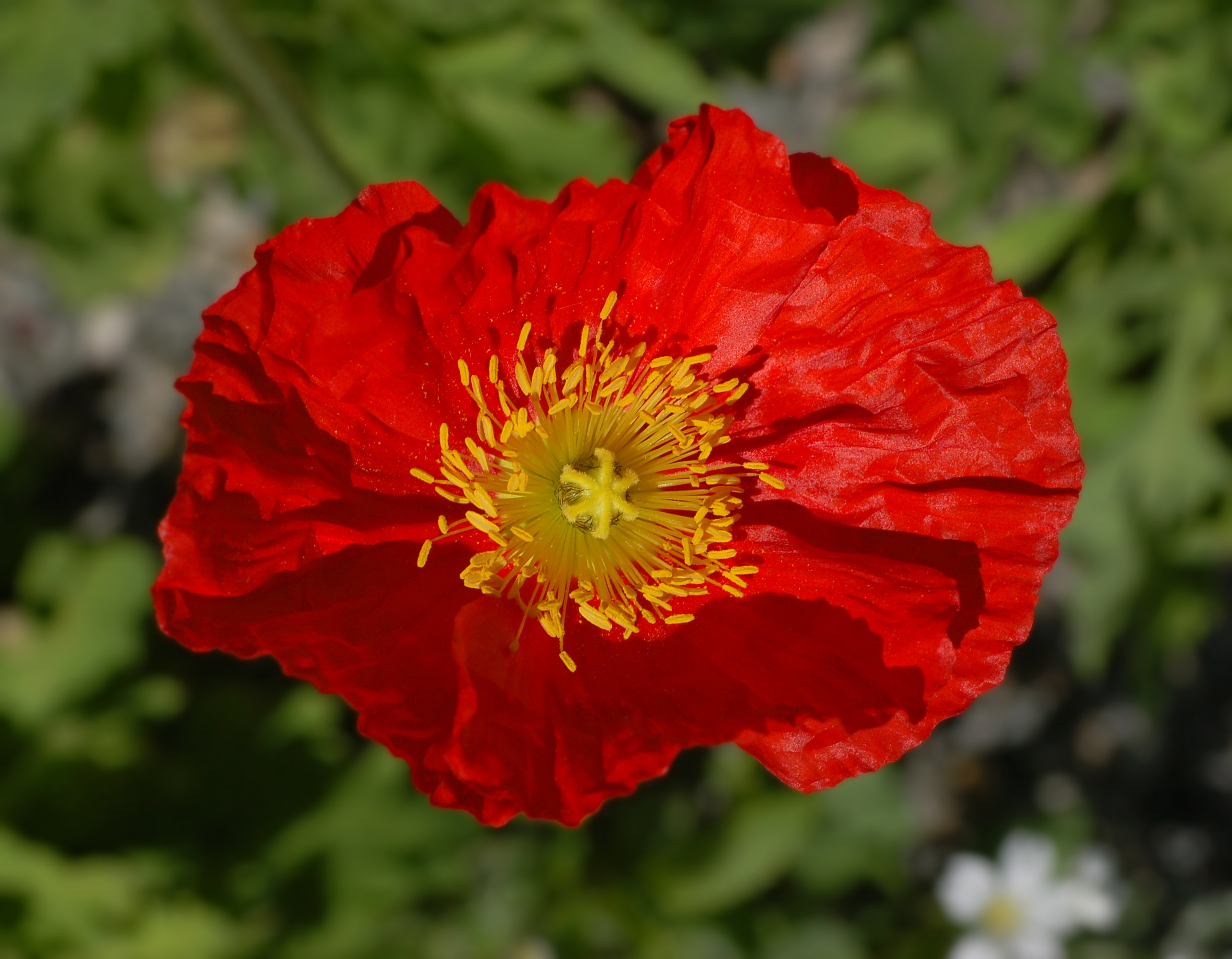 Picture of a red Iceland Poppyen (Papaver nudicaule en 'Champagne Bubbles') flower. Photo taken in the Teacup Garden at the Chanticleer Garden where the species was identified.